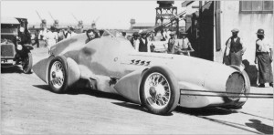 Campbell-Napier-Arrol Aster Blue bird in Cape Town, 1929